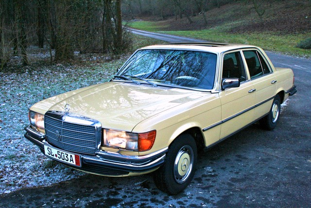 Mercedes 280 SE W116